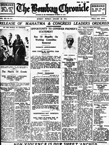 Newspaper The Bombay Chronicle, January 26th, 1931. "Release of Mahatma & Congress Leaders ordered."